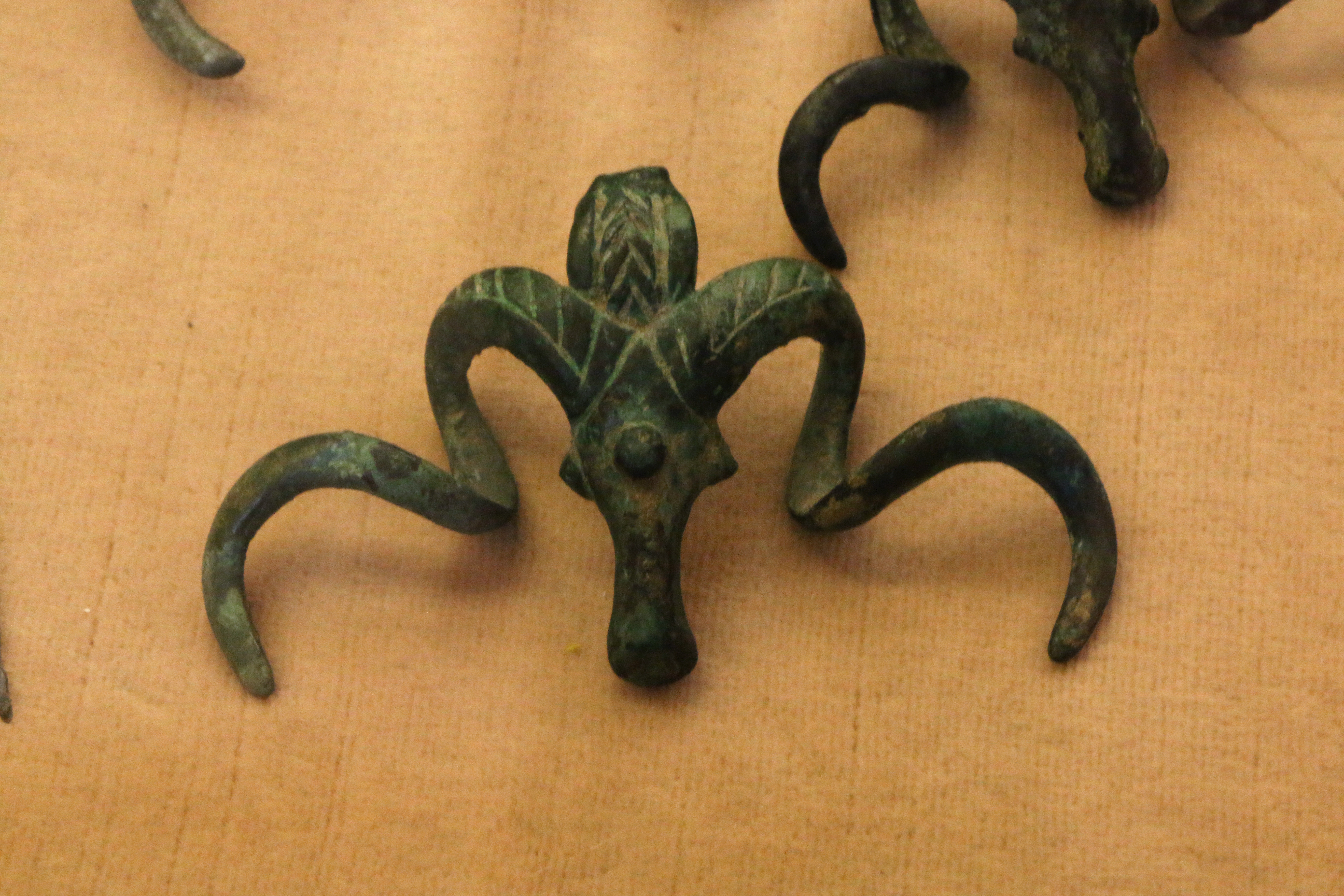 From the National Archaeological Museum of Saint-Germain-en-Laye near Paris France - Mouflon head-shaped pendant from Koban culture's graves of Koban